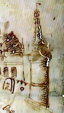 Maastricht, the Netherlands. Detail of a drawing of around 1500 showing the Biesentoren or Schonenvaardersbolwerk.